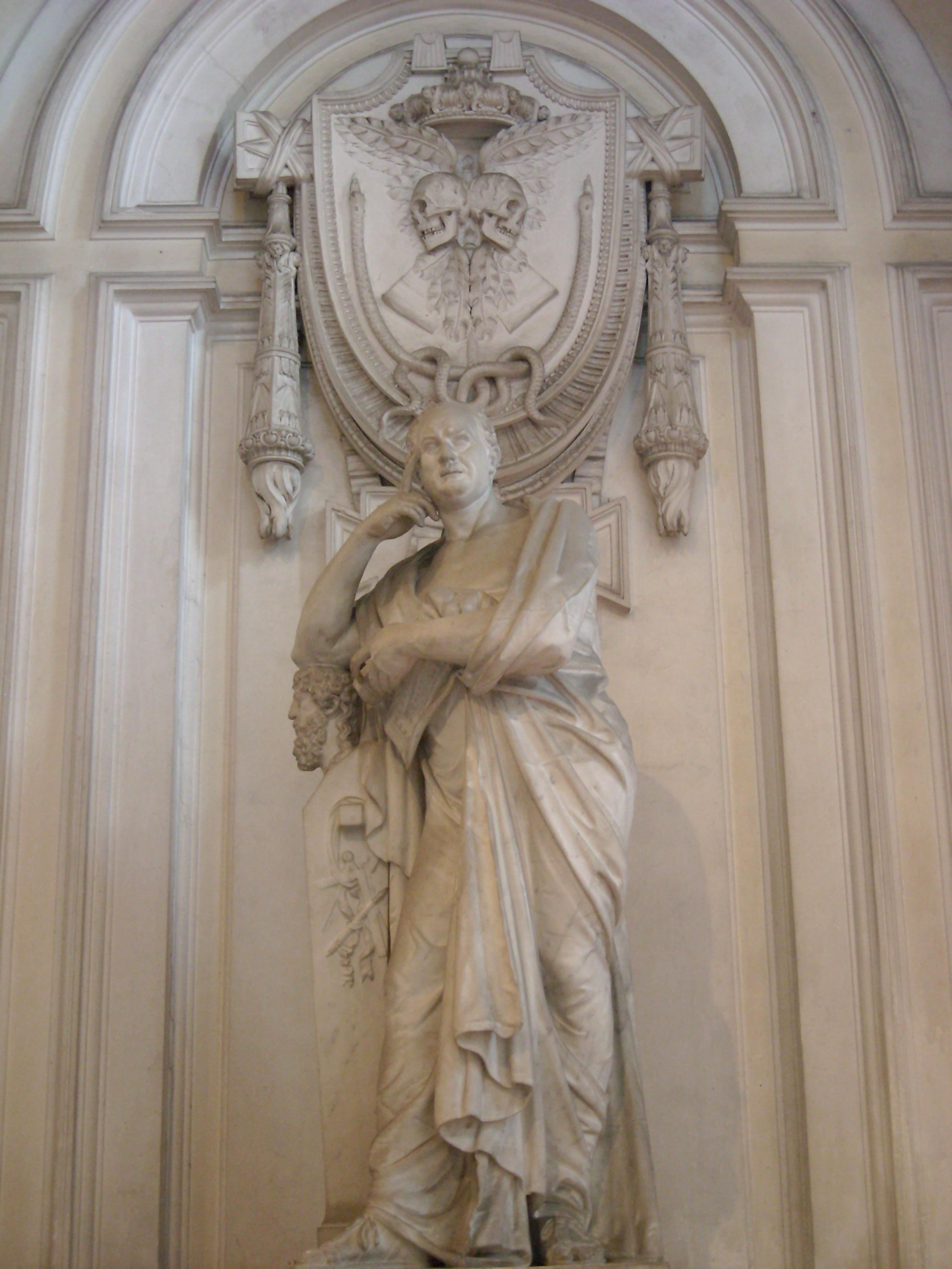 Tomb of Piranesi in the church of Santa Maria del Priorato (Rome) Sculptor Giuseppe Angelini, 1780